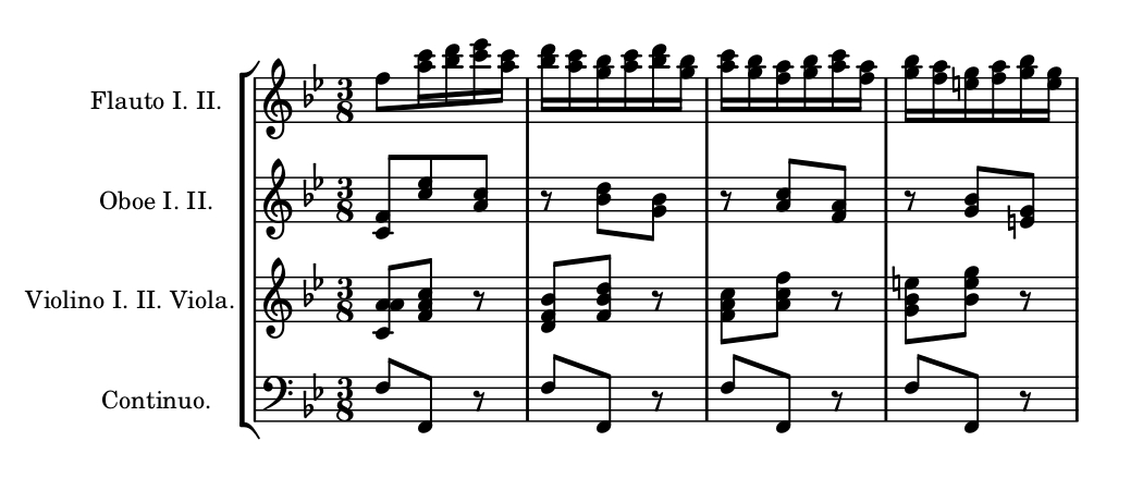 Miniscore of the first of three orchestral ritornellos from the final section of the first movement of the cantata Brich dem Hungrigen dein Brot, BWV 39 by J.S. Bach drawn using lilypond based on Bach's 1726 score.